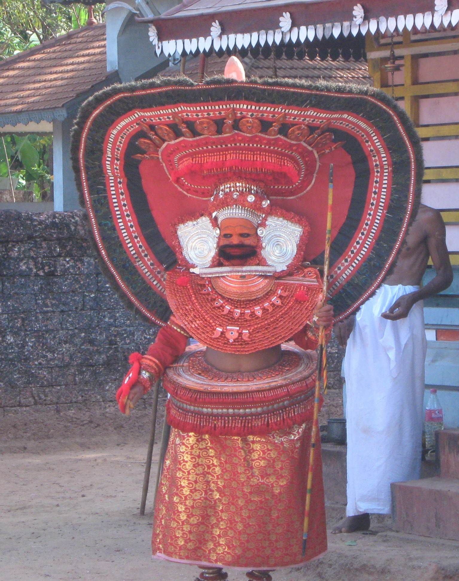 karivillam theyyam performed at Vadyanthur palot kavu at Thattachery, Nileshwar